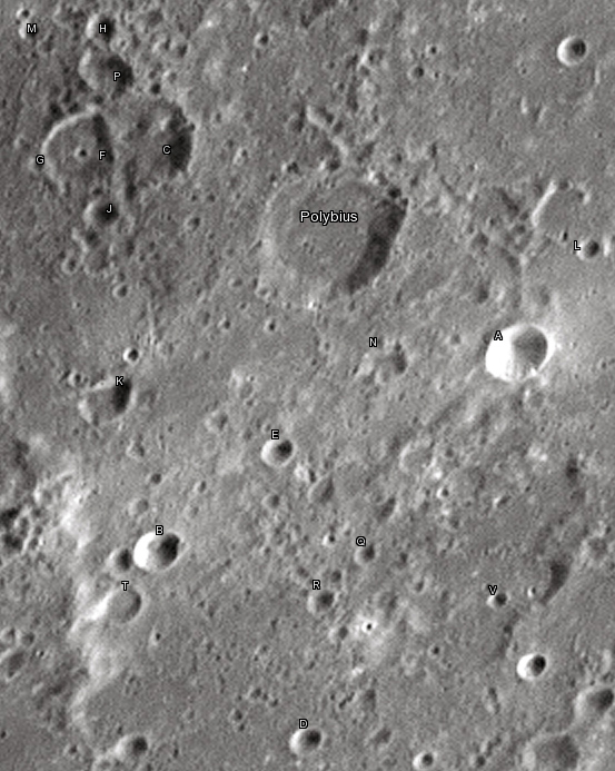 Polybius lunar crater as seen from Earth with satellite craters labeled